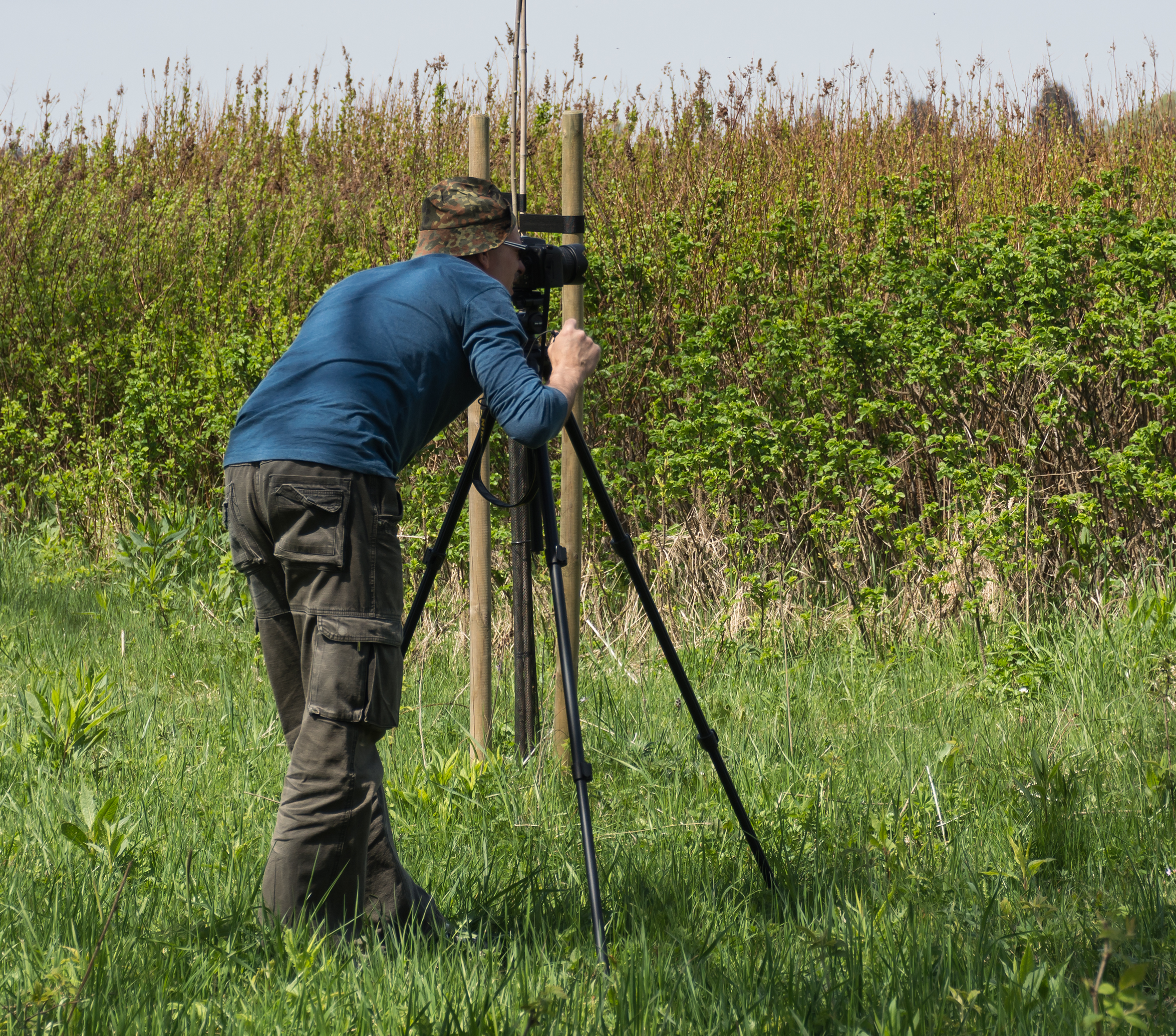 Photographer using a tripod